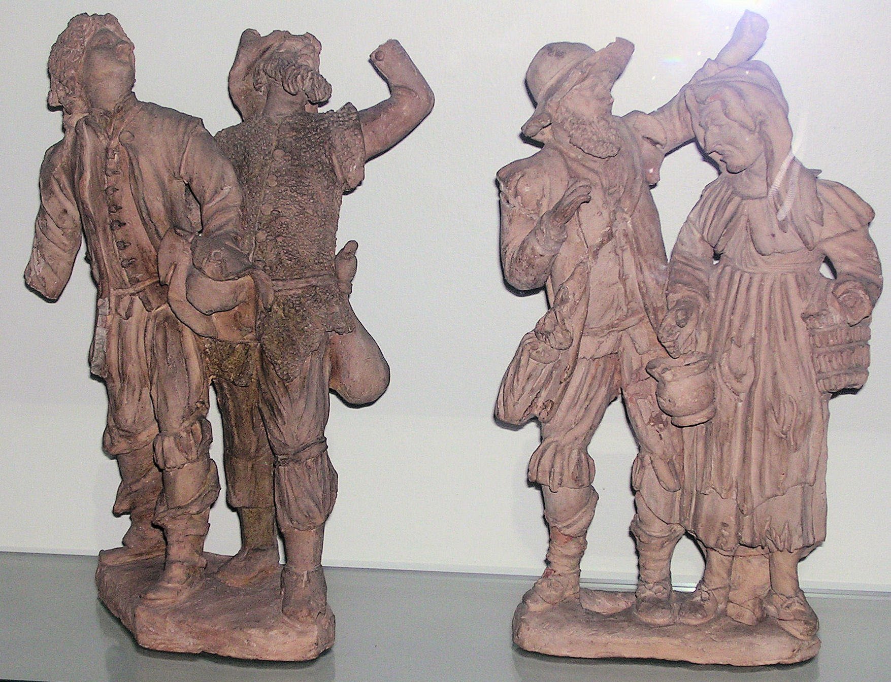 Sculpture for nativity scene in Museo Davia Bargellini (Bologna, Italy)